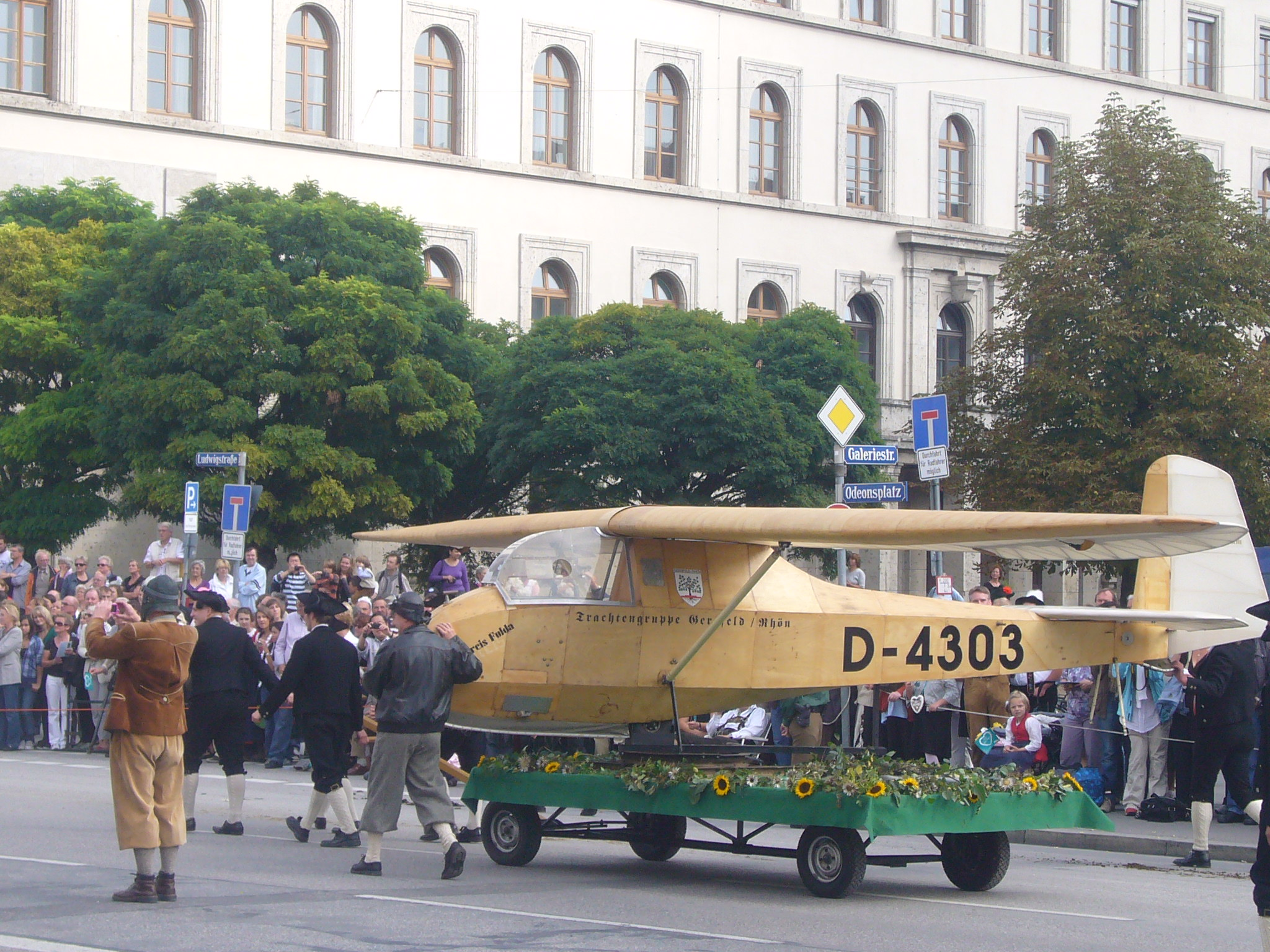 Oktoberfest parade in Munich, year 2009: Grunau Baby III from the nearby Deutsches Segelflugmuseum mit Modellflug German Glider Museum on the Wasserkuppe